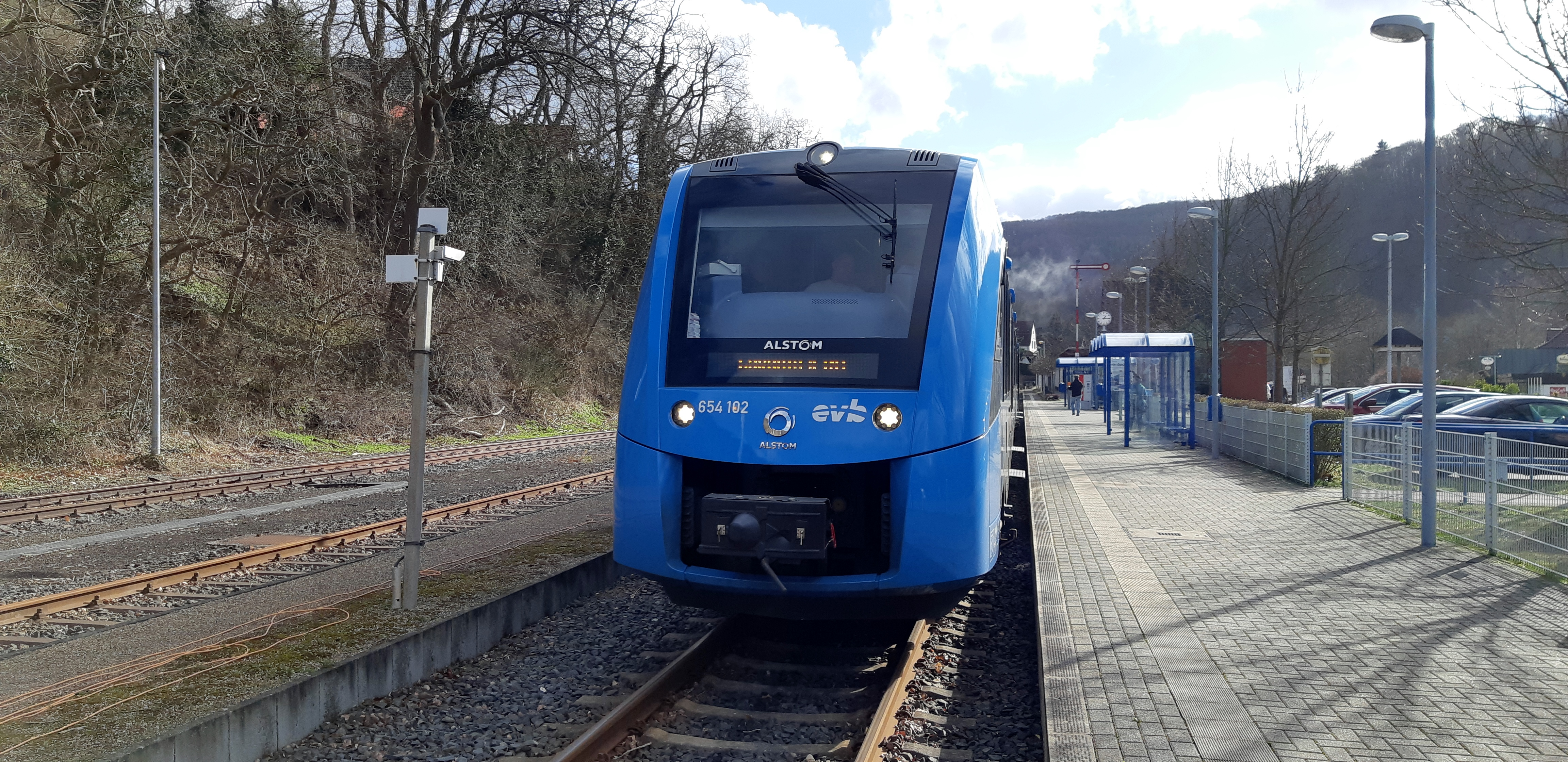 Alstom Coradia iLint, class 654, in the station of Heimbach (Eifel)